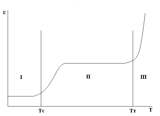 Thermo mechanical characteristics